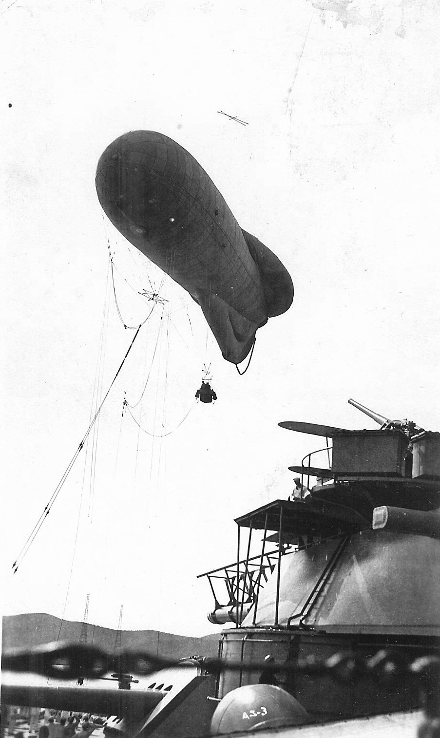 US Navy photo. A kite balloon has been deployed from the USS Arizona. The kite balloon has a two man crew.